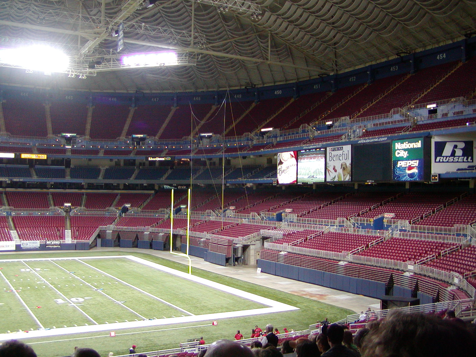 taken by William Wesen 10/22/2007